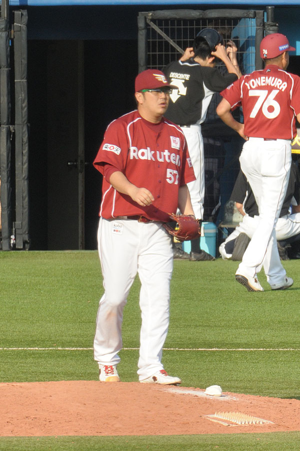 Shinichiro Koyama, pitcher of the Tohoku Rakuten Golden Eagles, at Chiba Marine Stadium.